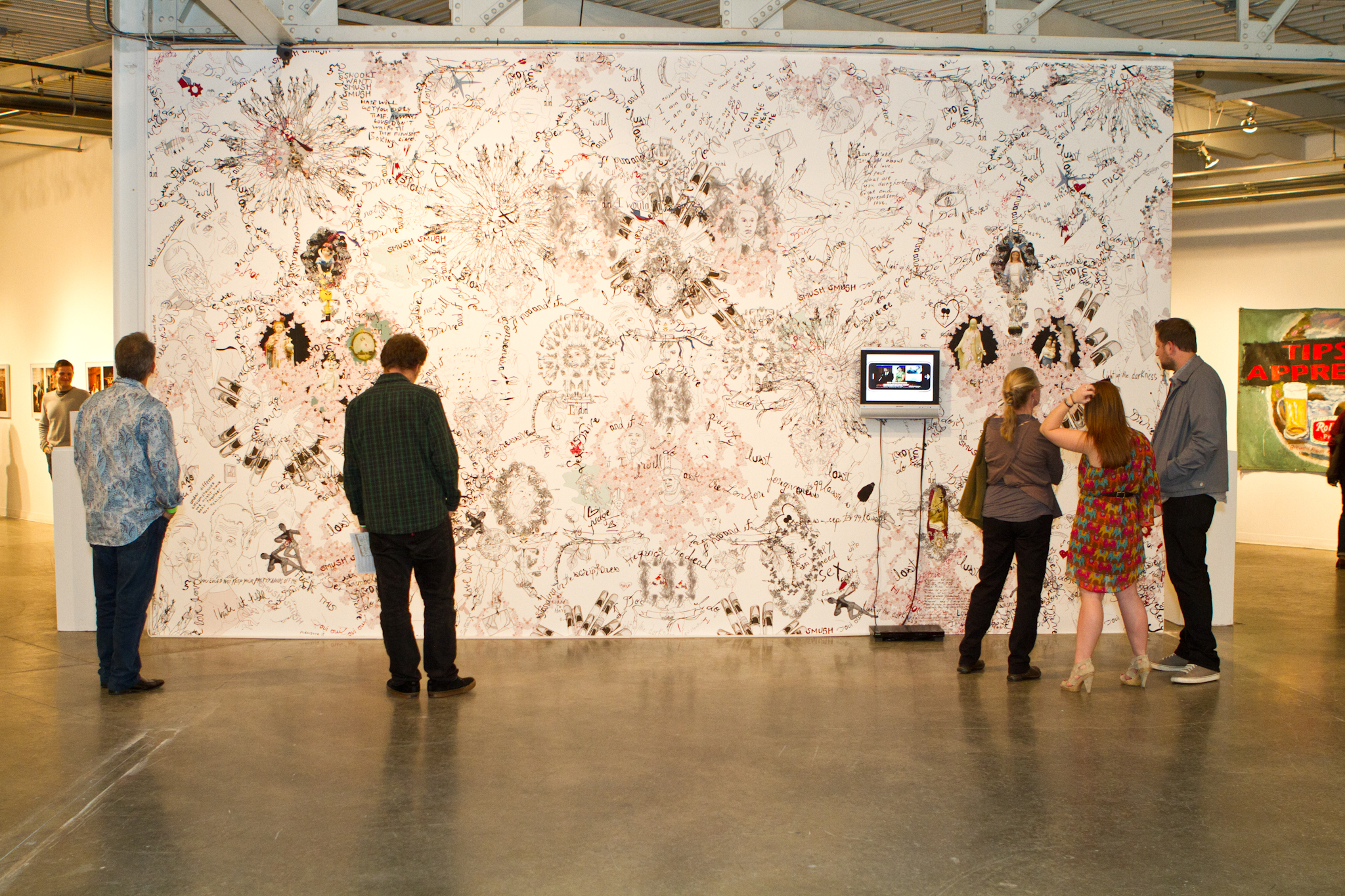 Sex Drive exhbit, ATL contemporary Art center